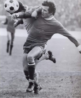 Cornel Georgescu in 1984.